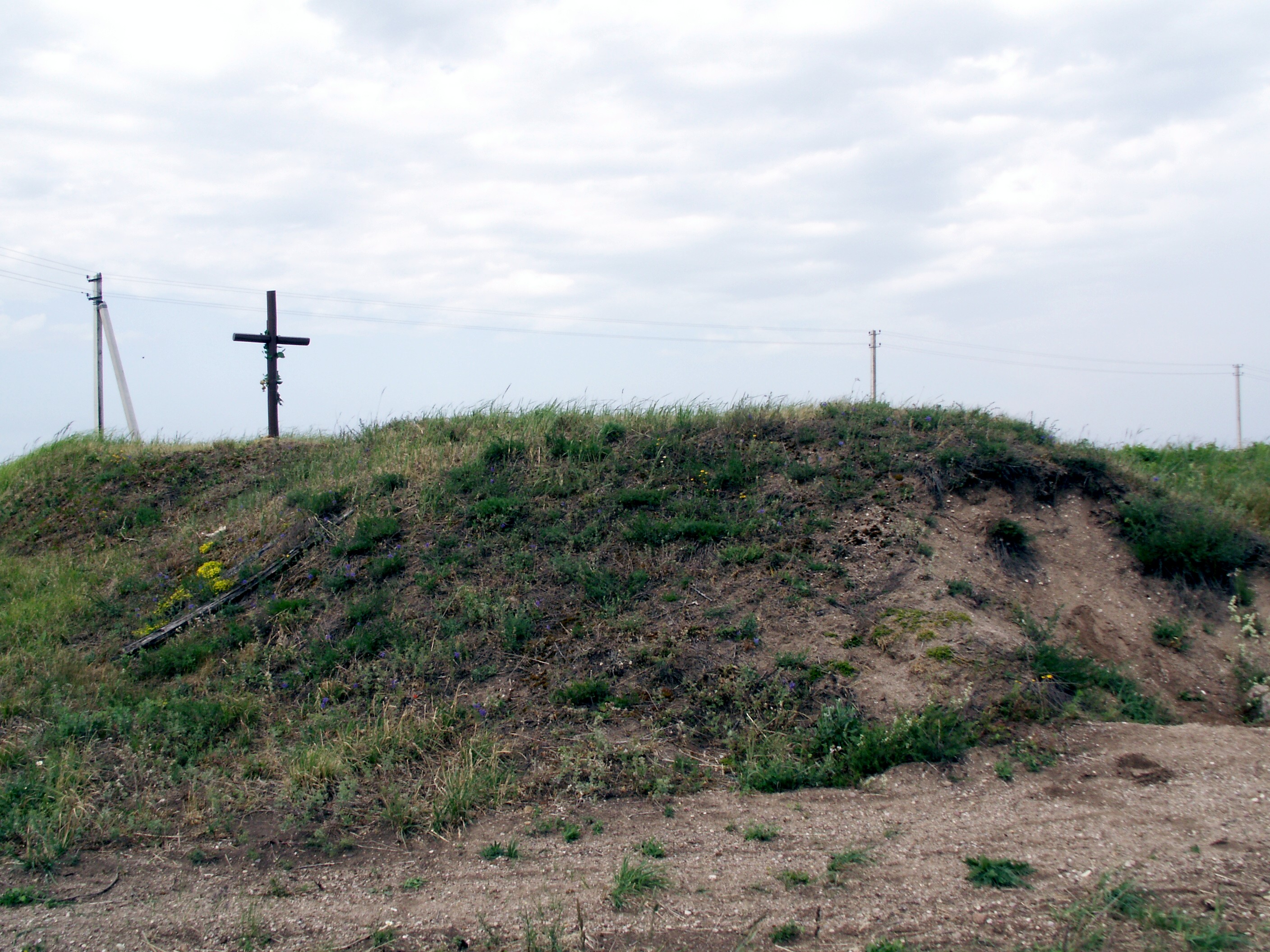 Siliskiai cemetery, Pakruojis district